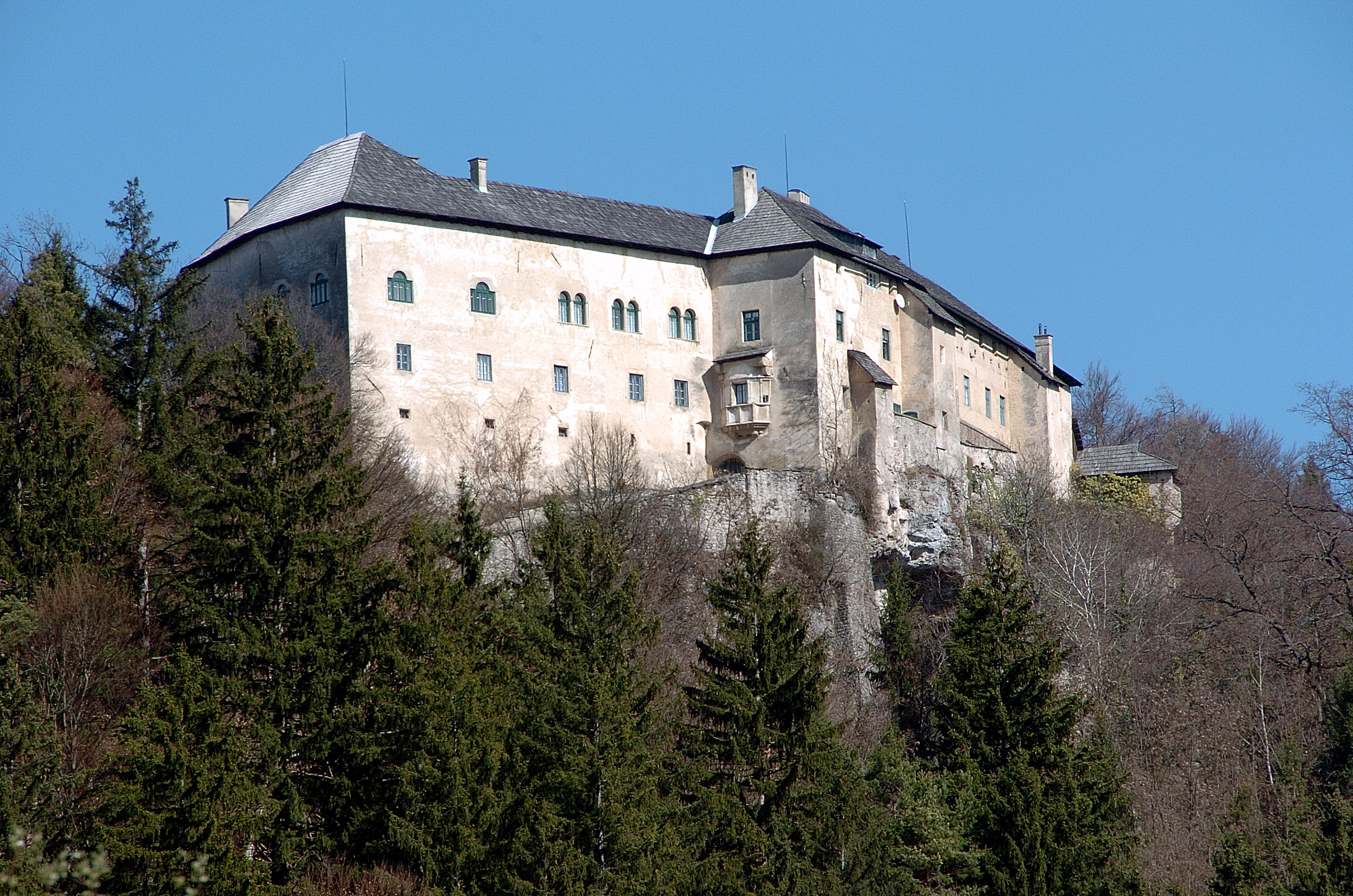 Hollenburg, municipality Koettmannsdorf, district Klagenfurt Land, Carinthia, Austria